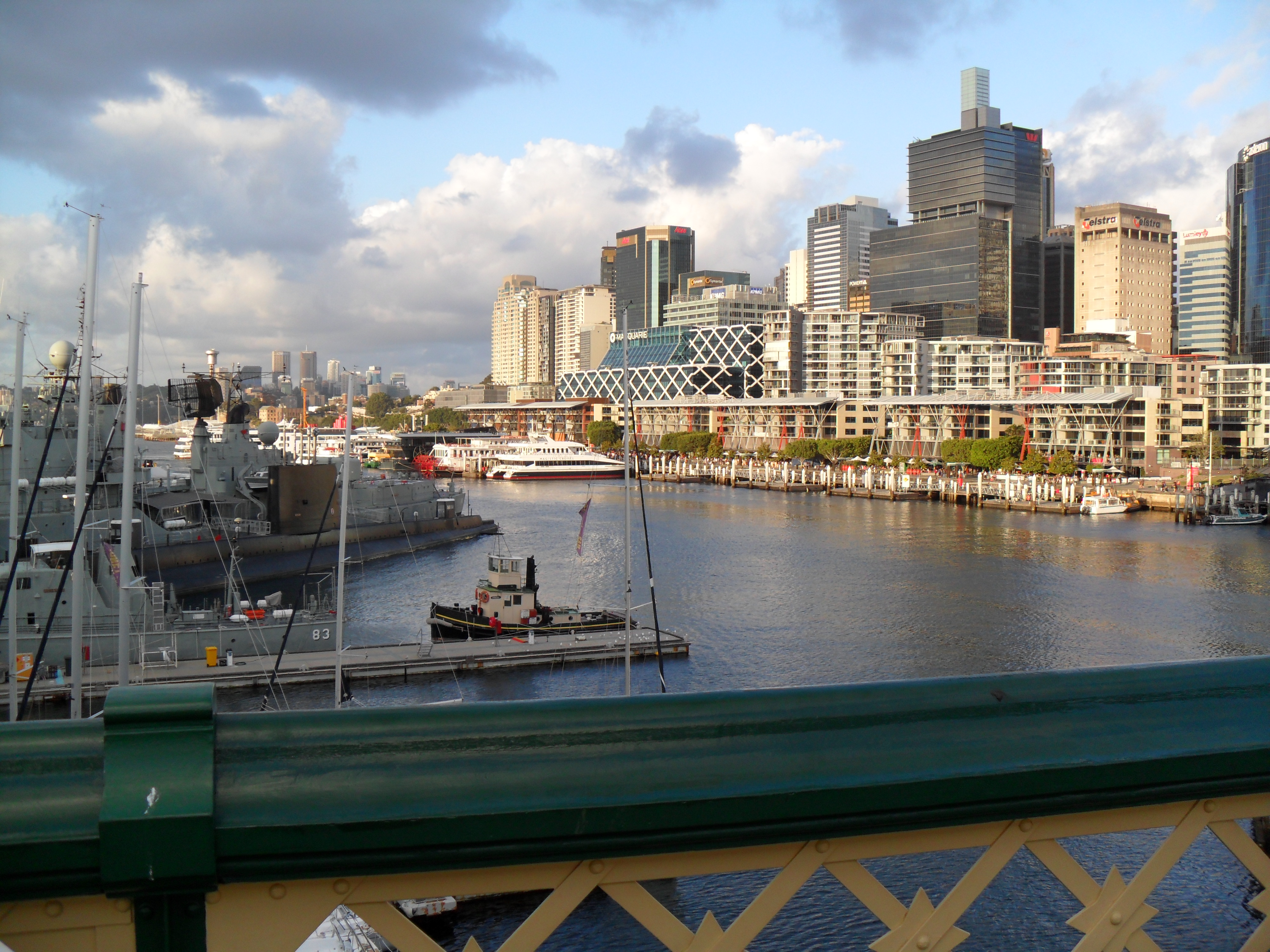 King Street Wharf viewed from Pyrmont Bridge, Darling Harbour